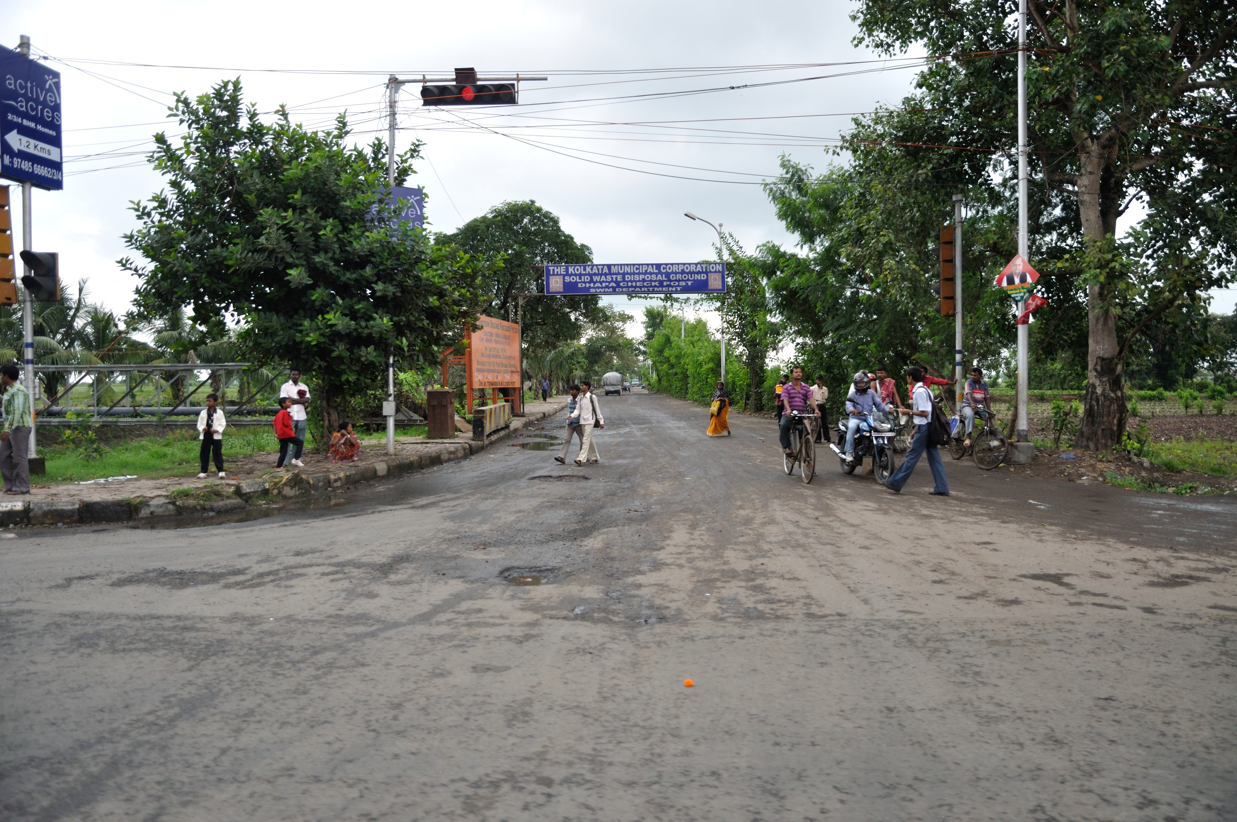 Photographed in Kolkata.